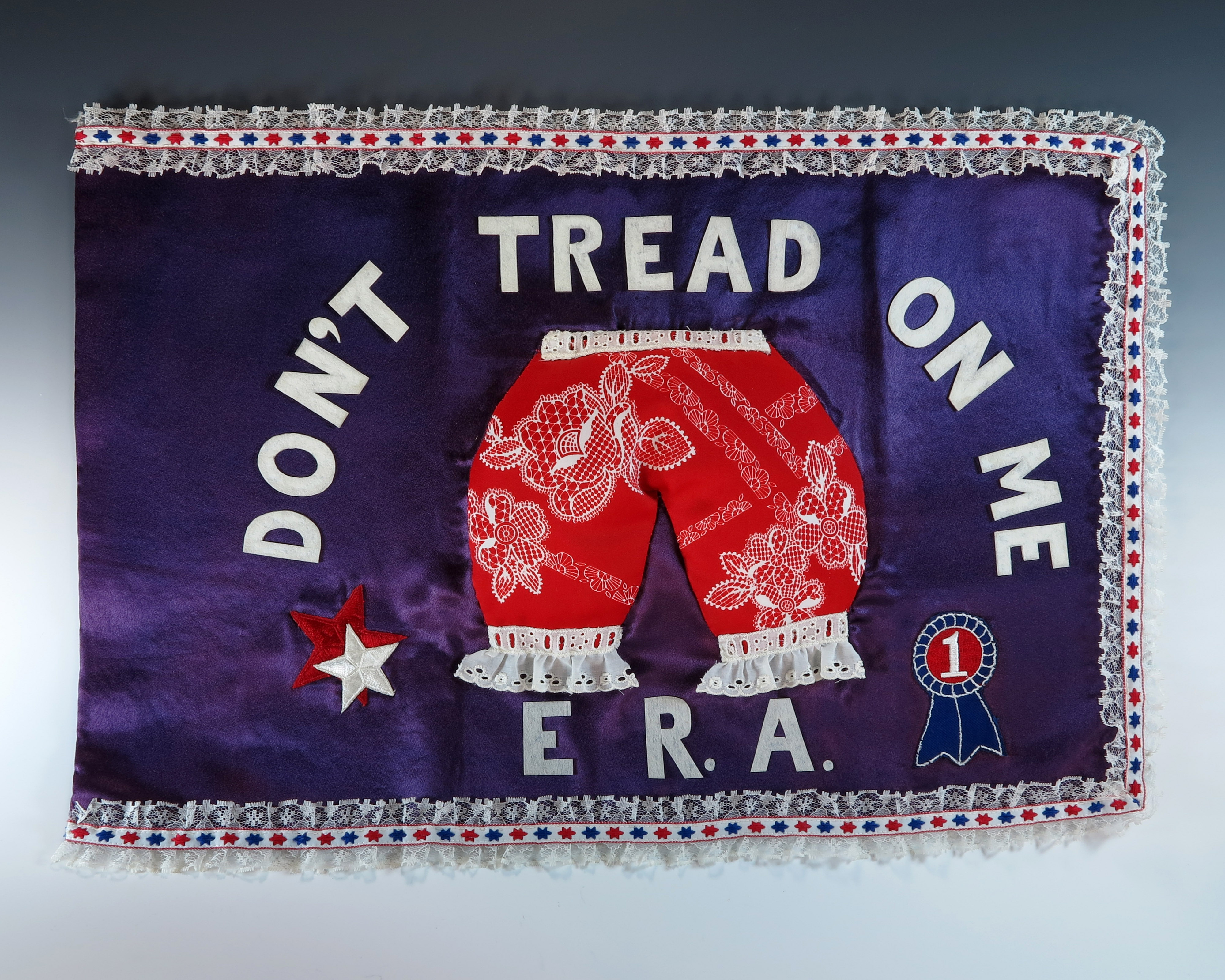 The purple satin background is trimmed in white lace with a blue and red star border. The pair of red and white bloomers in the center is a play on Betty's maiden name. White text above the bloomers reads, “Don't Tread on Me,” and below, “E.R.A.” - demonstrating Betty’s support for the Equal Rights Amendment. A wife of one of Betty’s staffers handmade it for her as a limousine flag.